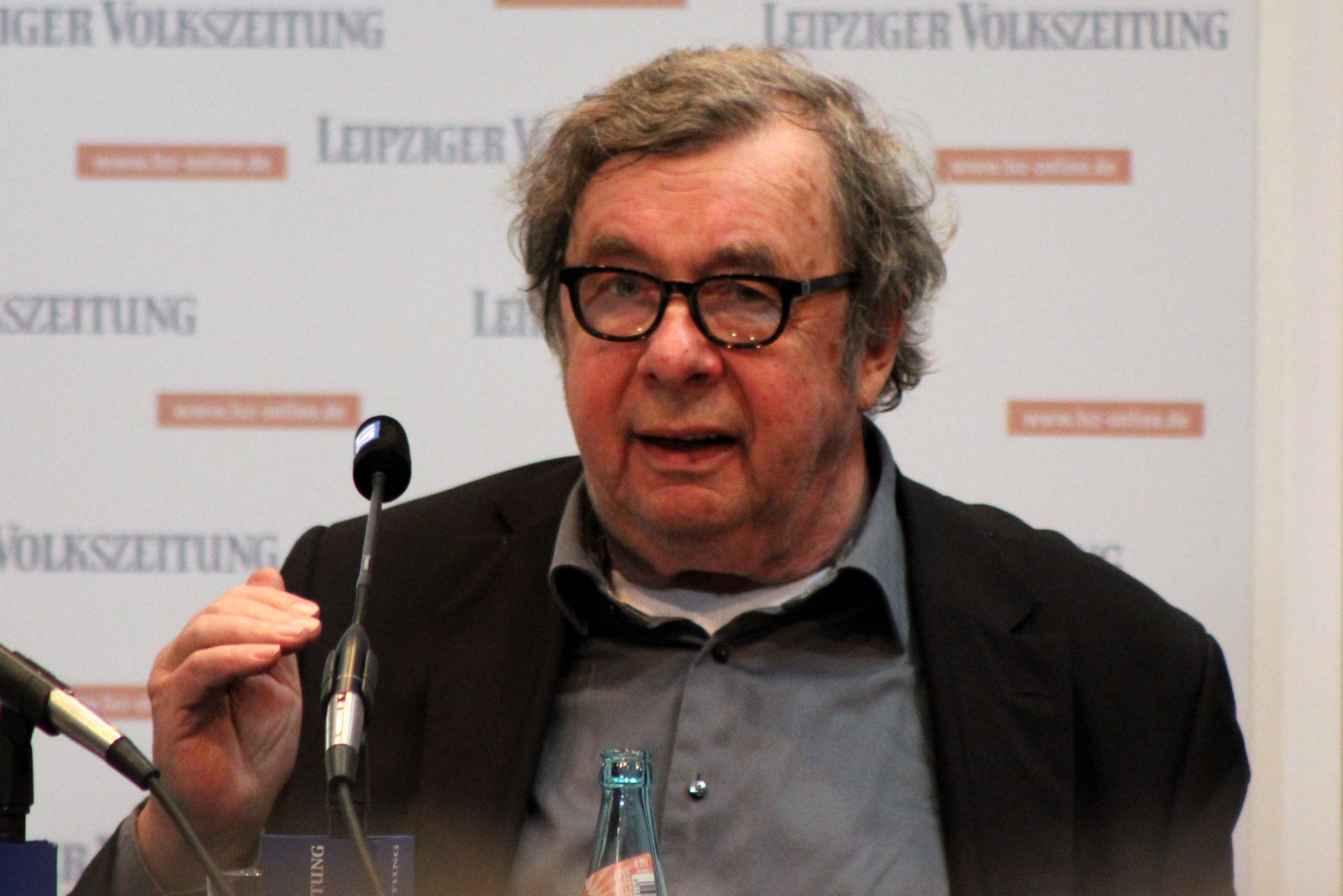 Hellmuth Karasek, Leipzig Book Fair 2013